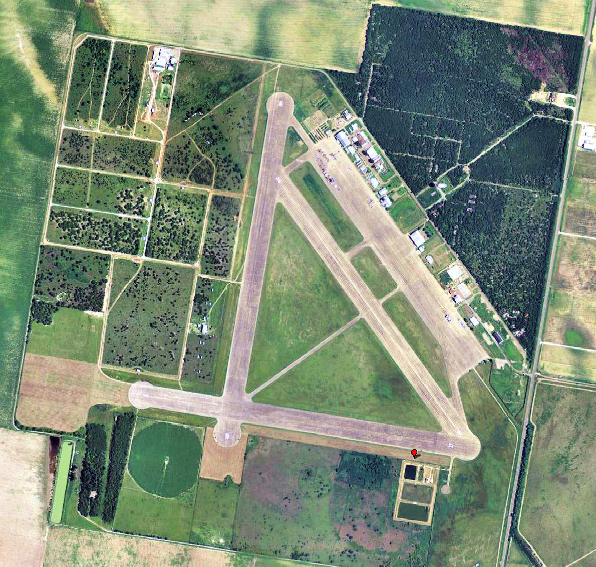 USGS digital orthophoto of Moore Air Base in Texas